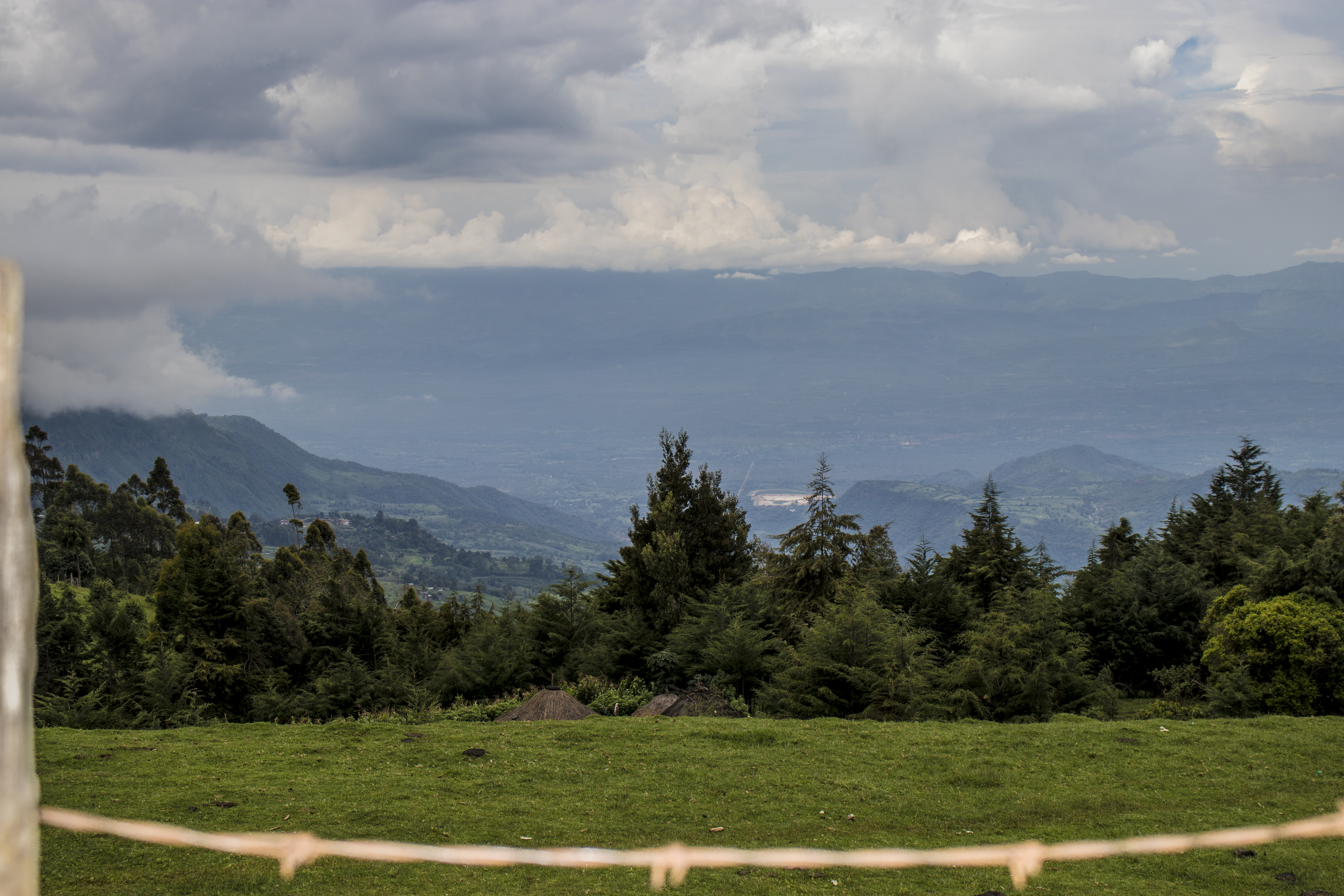 A view of Kerio Valley in Rift Valley Kenya This is an image of "African people at work" from Kenya